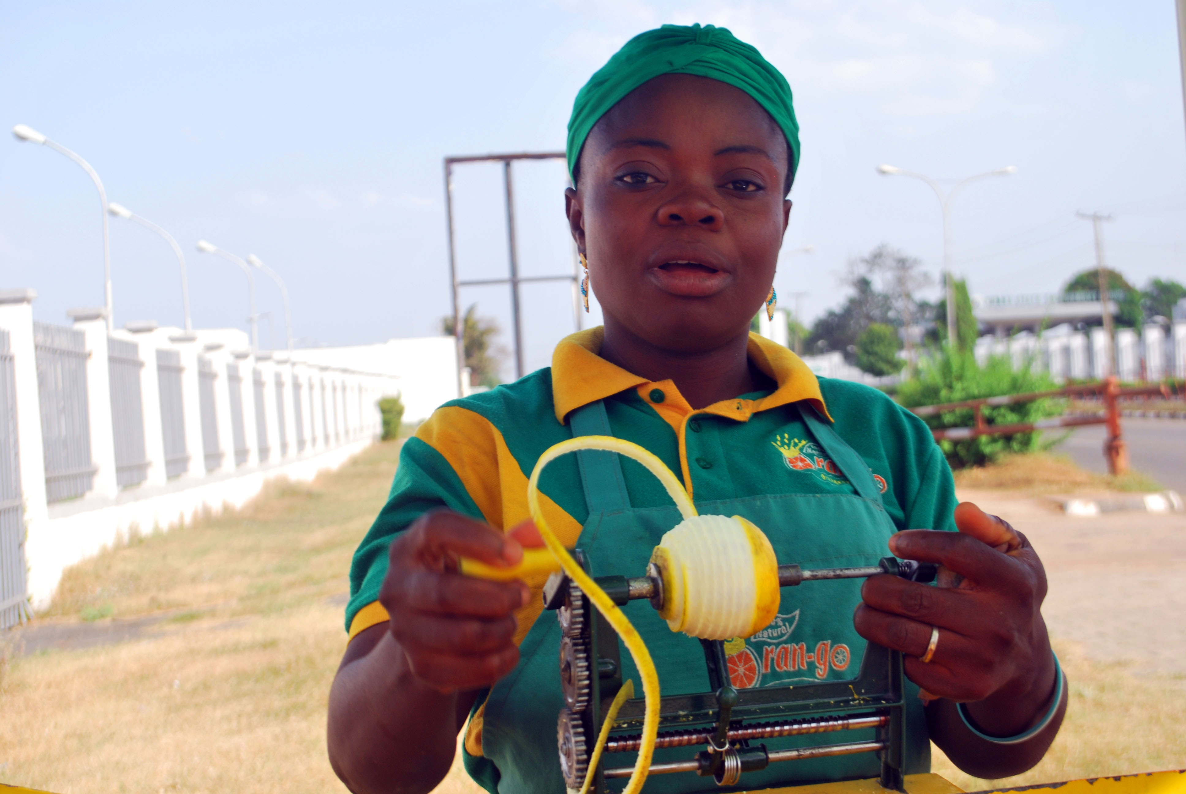 This is an image of "African people at work" from Nigeria